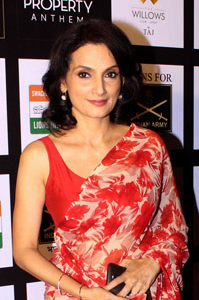 Rajeshwari Sachdev grace the Lions Gold Awards 2018